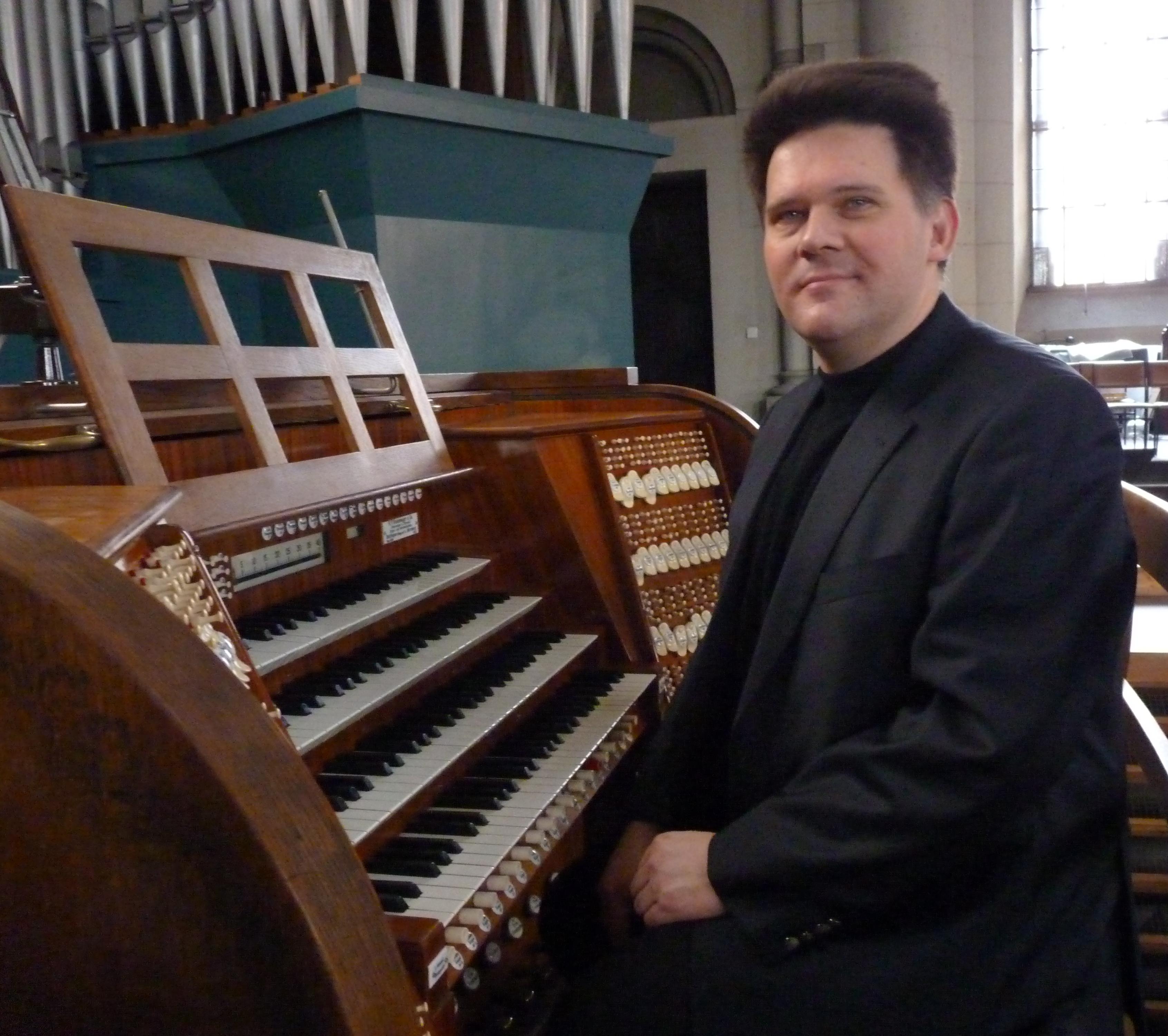 Danijel Drilo (2014)